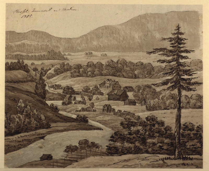 Hassel Ironwork at Modum in Norway in 1805.